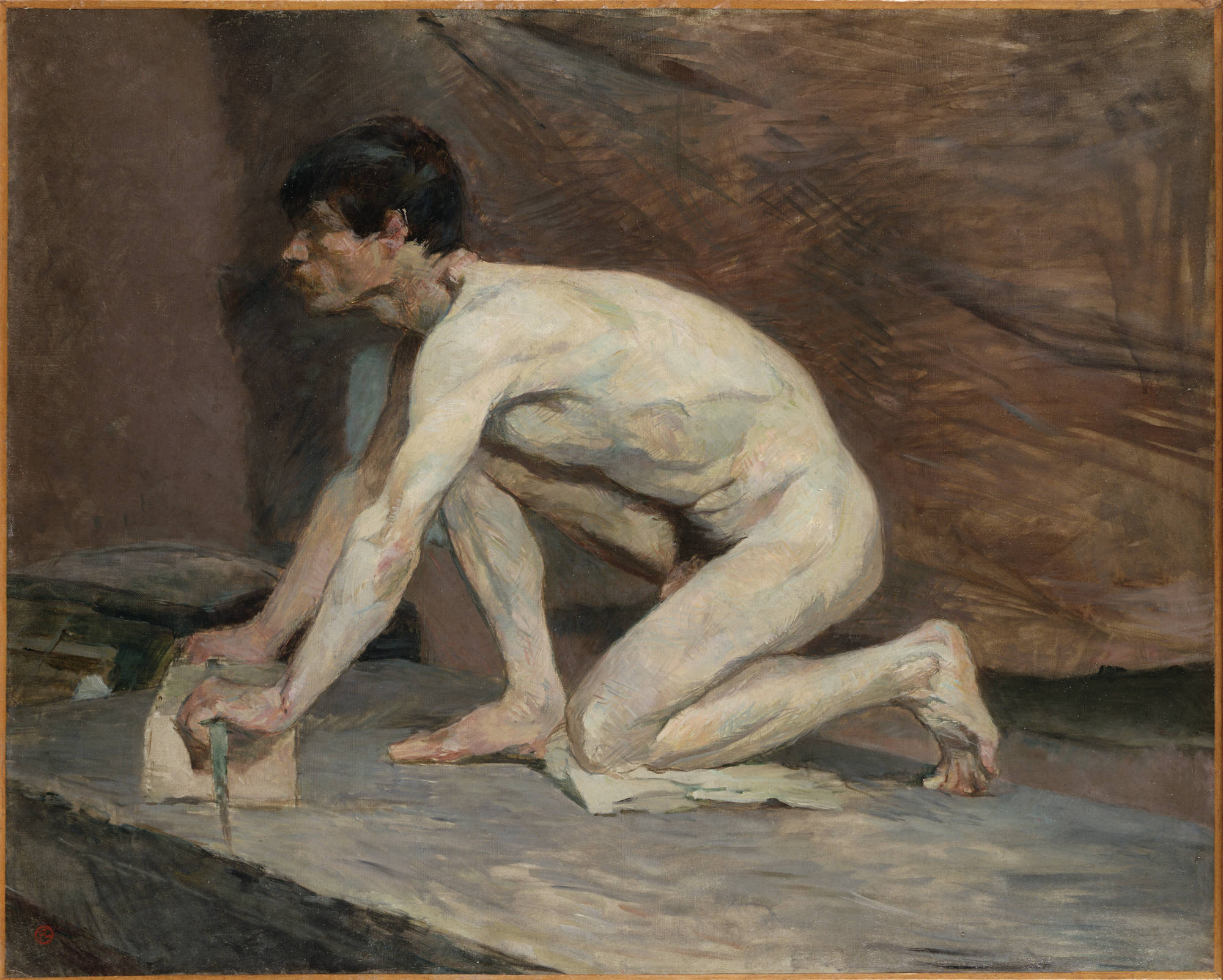 Gallery Label: Toulouse-Lautrec probably painted this work while studying in the Parisian atelier of the popular painter Fernand Cormon. Among his fellow pupils were Émile Bernard and Vincent van Gogh. With its emphasis on careful study of the human anatomy and its use of a famous ancient sculpture as a model, Scythian Slave in the Uffizi Museum in Florence, The Marble Polisher is indicative of the academic training Cormon provided. But Toulouse-Lautrec also uses broken brushwork and colored shadows here-techniques derived from his Impressionist contemporaries.